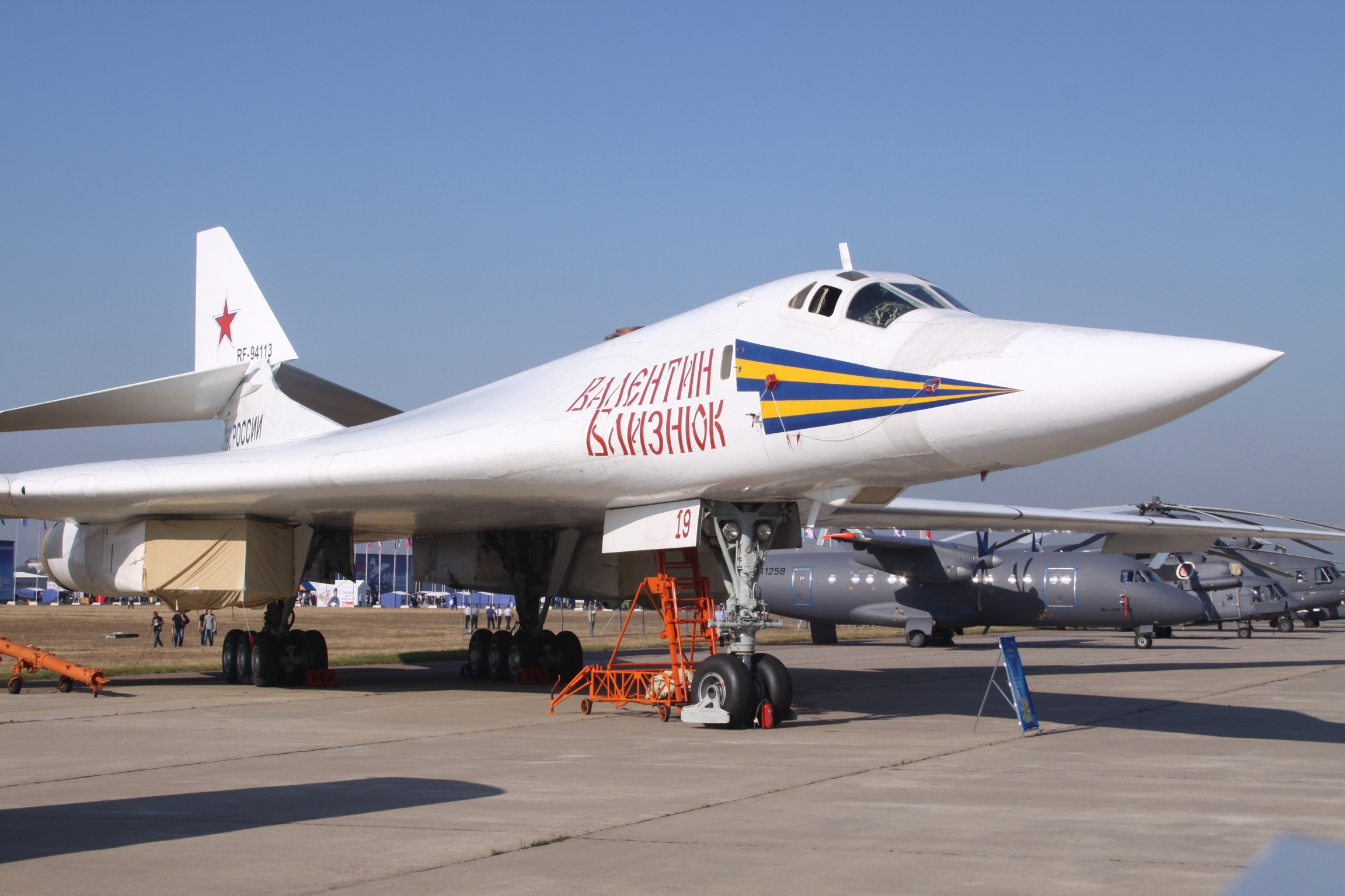 At Moscow Zhukovsky